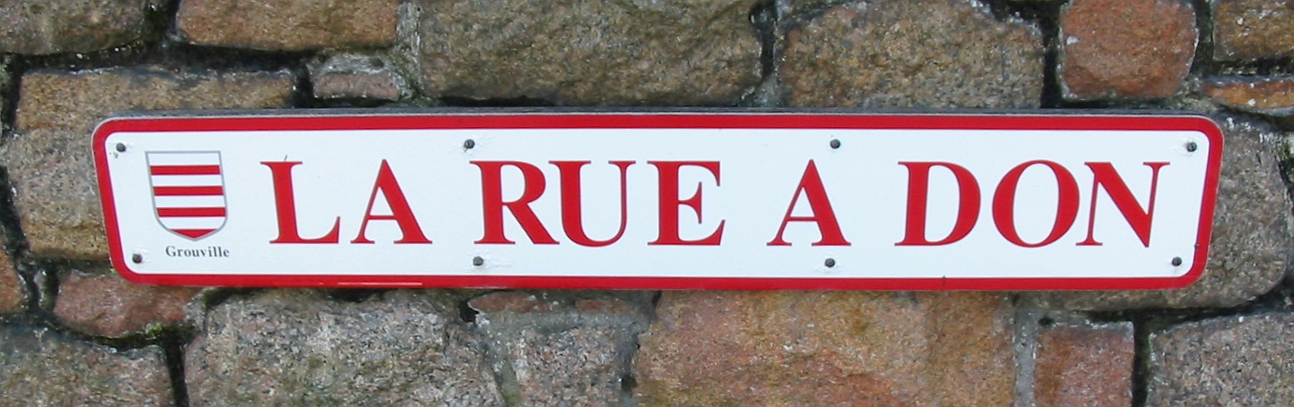 General George Don, Governor of Jersey and roadbuilder, in Jersey road name Nrf: La Rue à Don, Grouville, Jèrri